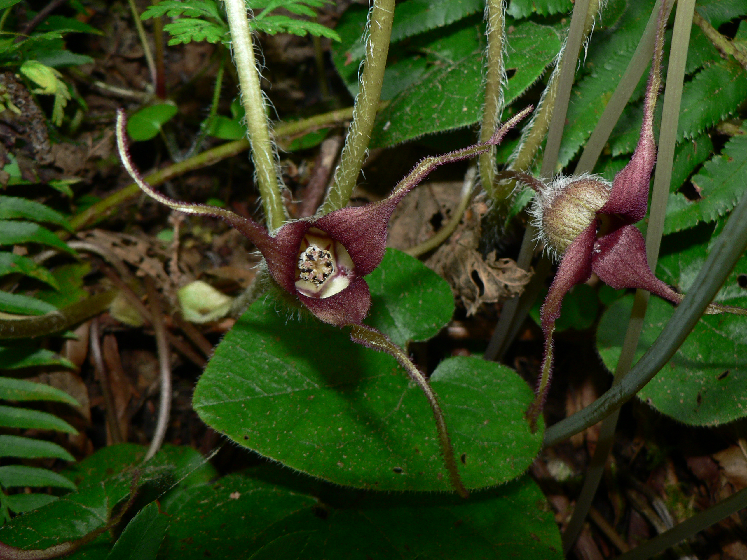 British Columbia Wildginger